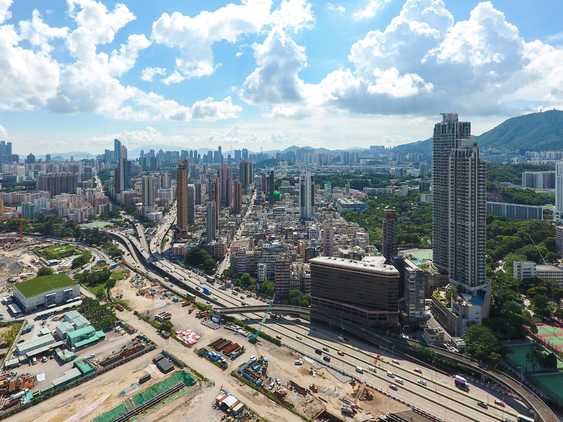 Kowloon City aerial view